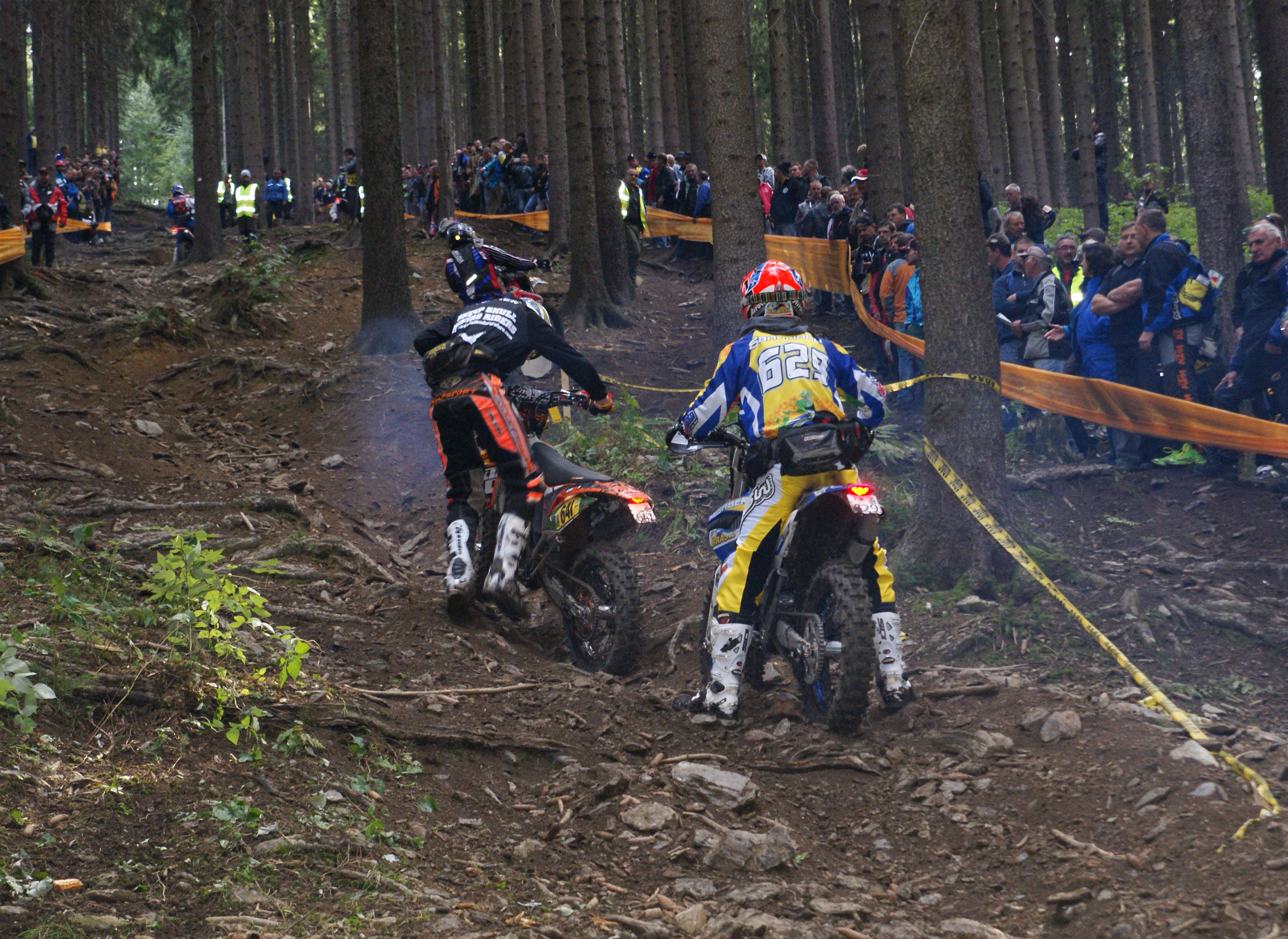 The making of this document was supported by the Community-Budget of Wikimedia Germany. 87. ISDE Steep Hill Hormersdorf